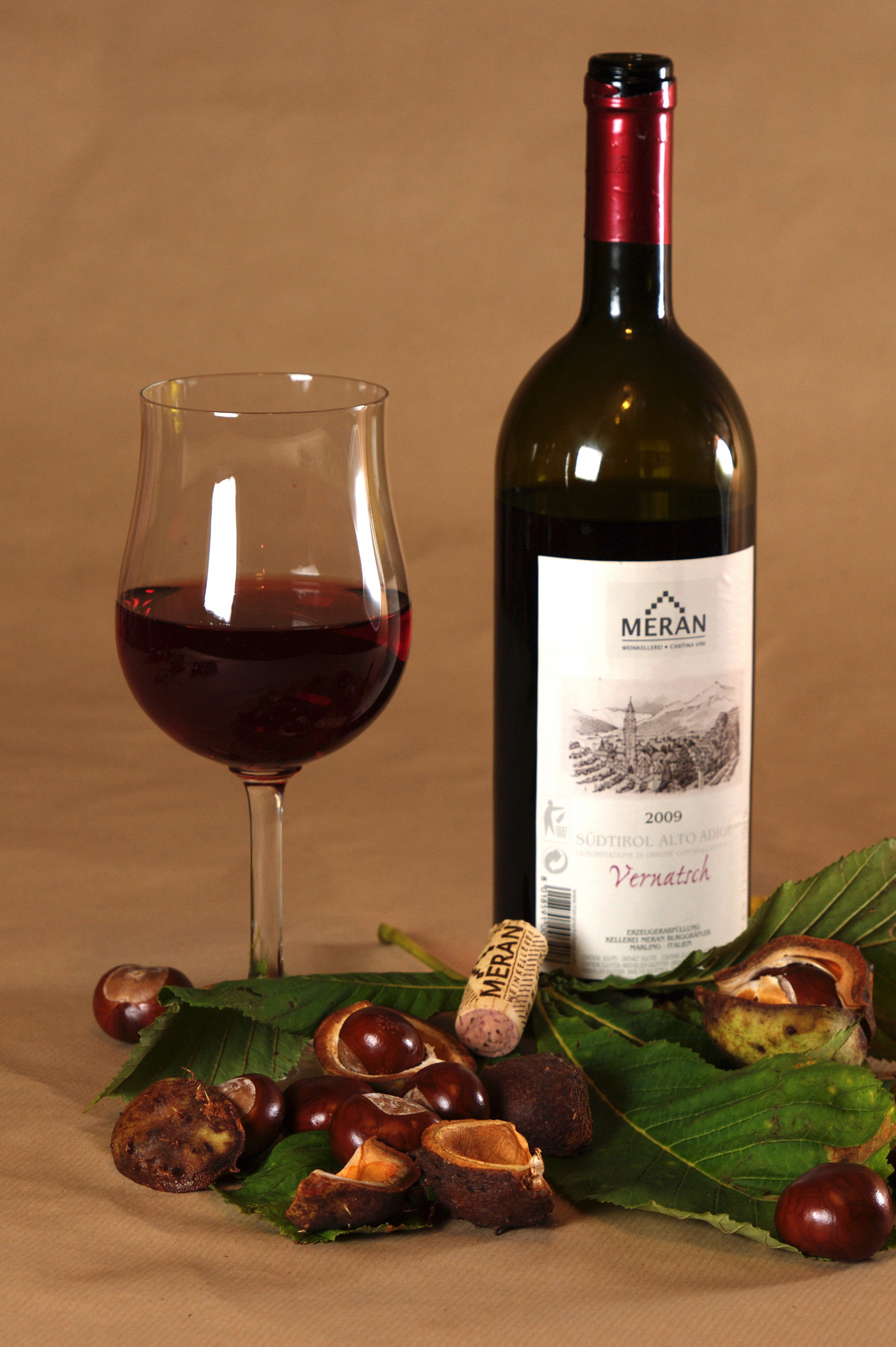 South Tirol Red Wine